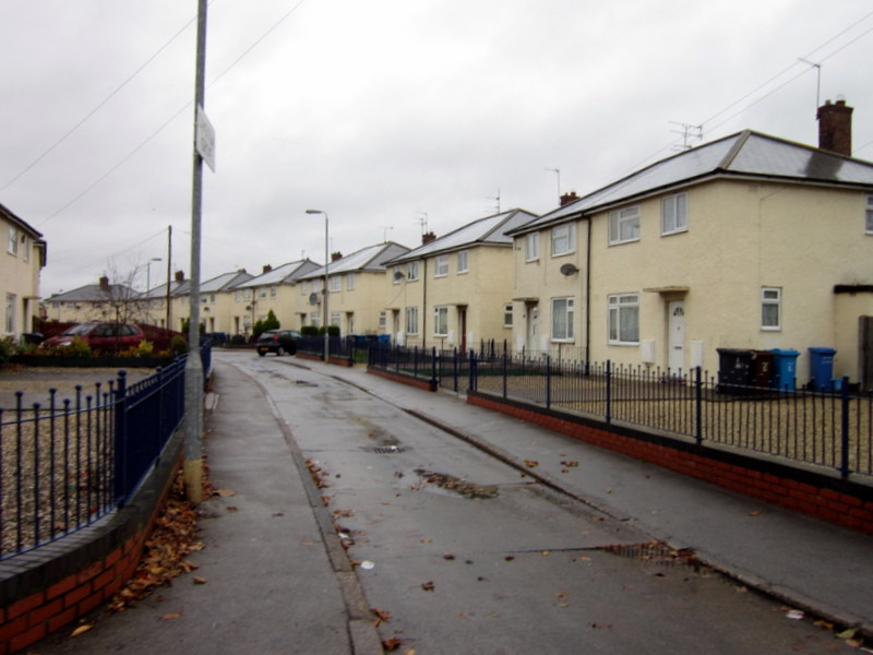 Camerton Grove off Ellerby Grove, Hull, East Riding of Yorkshire, England.